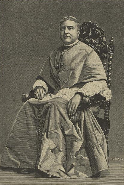 D. Manuel Correia de Bastos Pina (1830-1913), Bishop of Coimbra